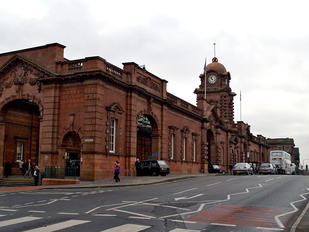 Nottingham (formerly Midland) railway station façade on Carrington Street, Nottingham, England, at the junction with Station Street. Monday 15th December 2008